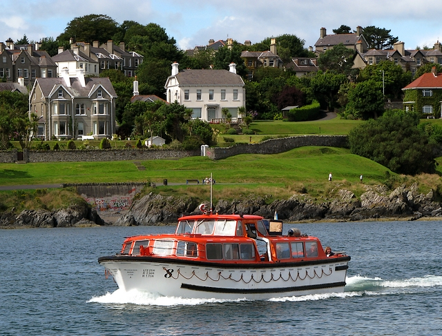 Cruise ship launch arriving at Bangor. A small launch from the cruise ship 'Saga Rose' 1411739 taking passengers into Bangor.